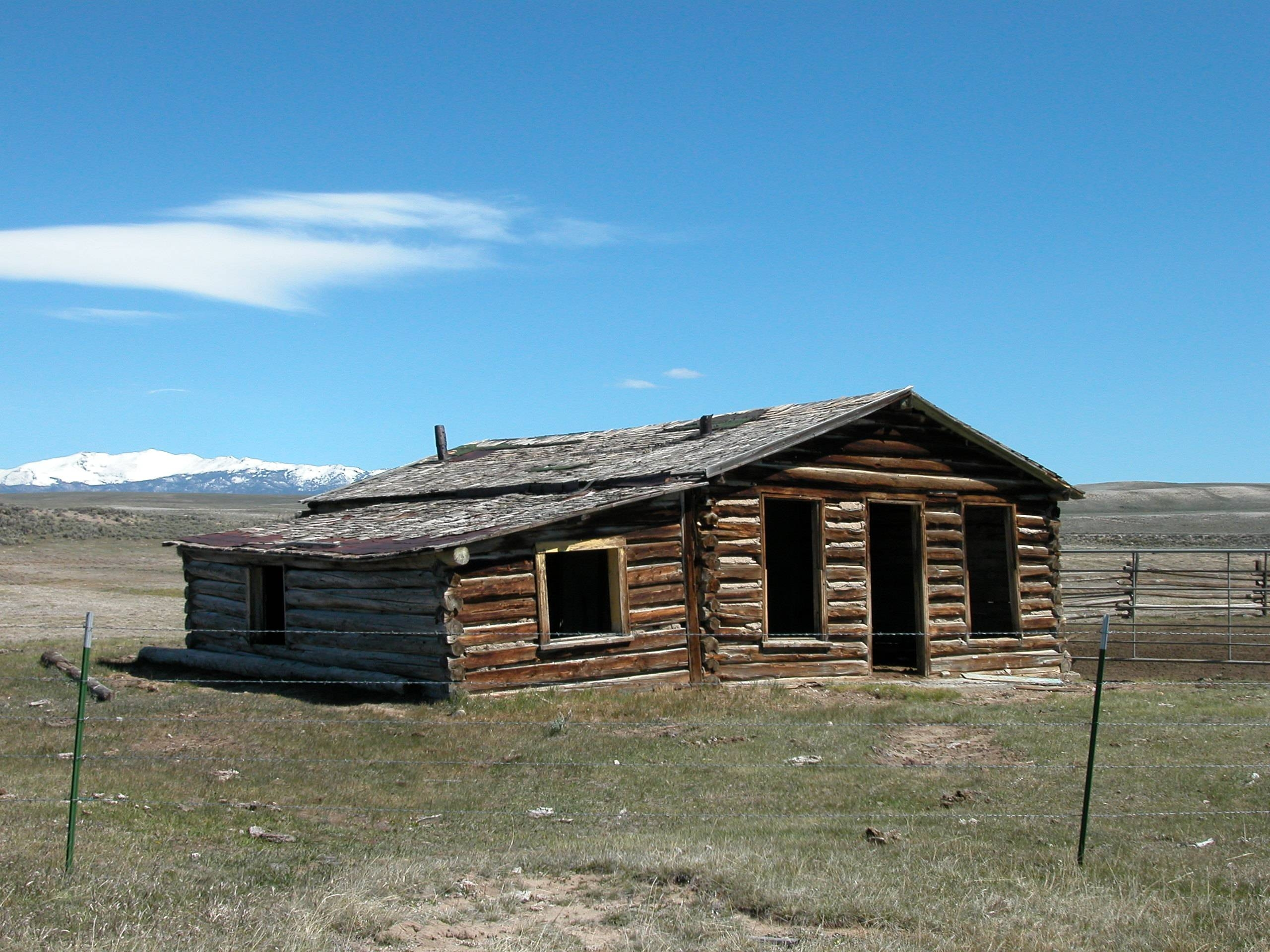 Ruins of the old log hotel and Pony Express station at Pacific Springs, located in Fremont County, southwestern Wyoming. It was near South Pass, on routes of the Oregon Trail, California Trail, and Mormon Trail. Pacific Springs is the first significant feeder into Pacific Creek, a tributary of the Sweetwater River.